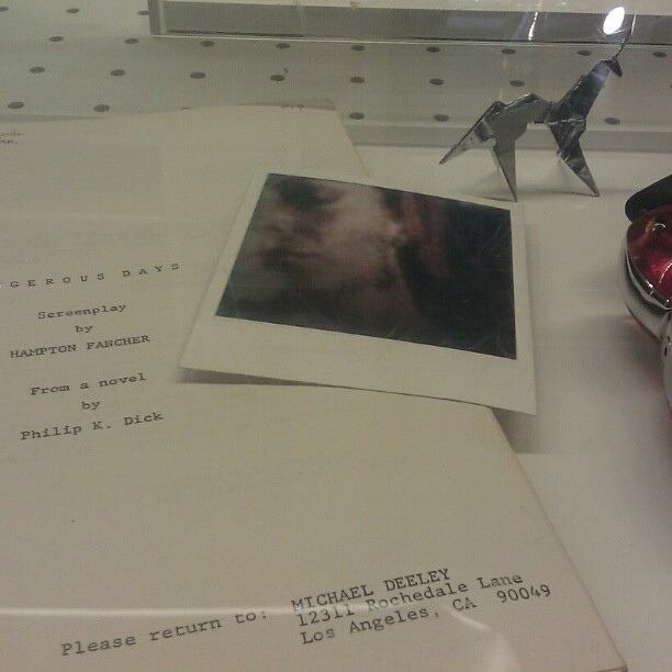 Screenplay, polaroid and origami from the 1982 film Blade Runner displayed at ExpoSYFY (Spain?)